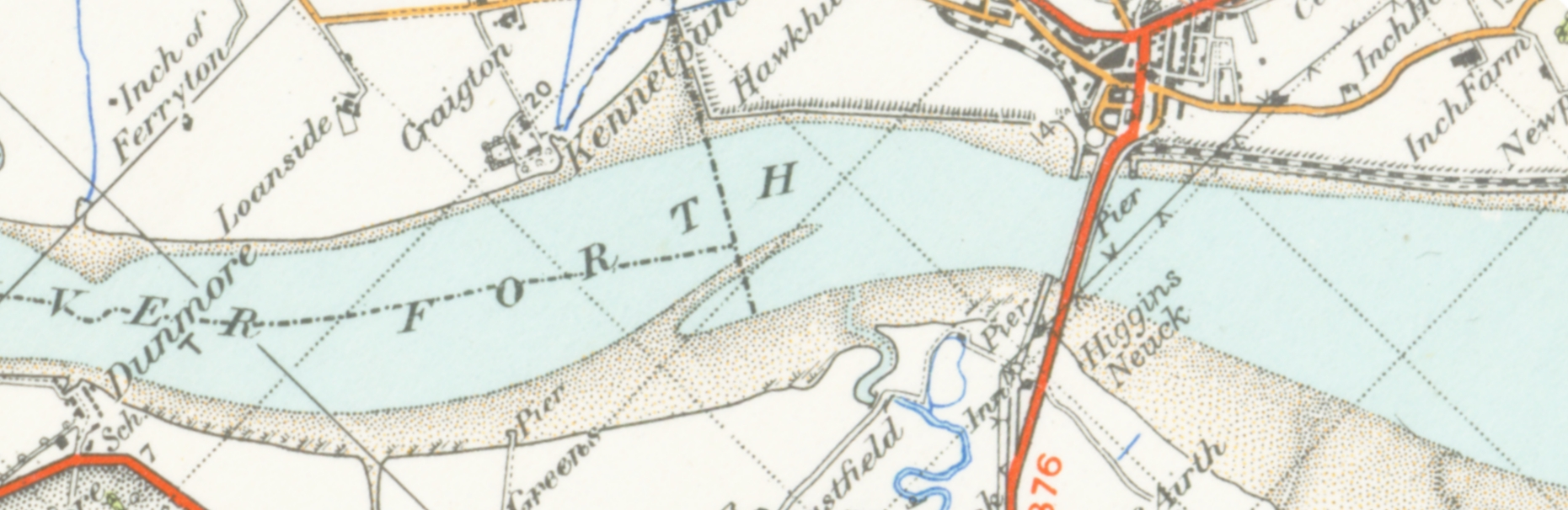 map of the area around Kincardine bridge 1 inch to the mile scale scanned at 600 DPI